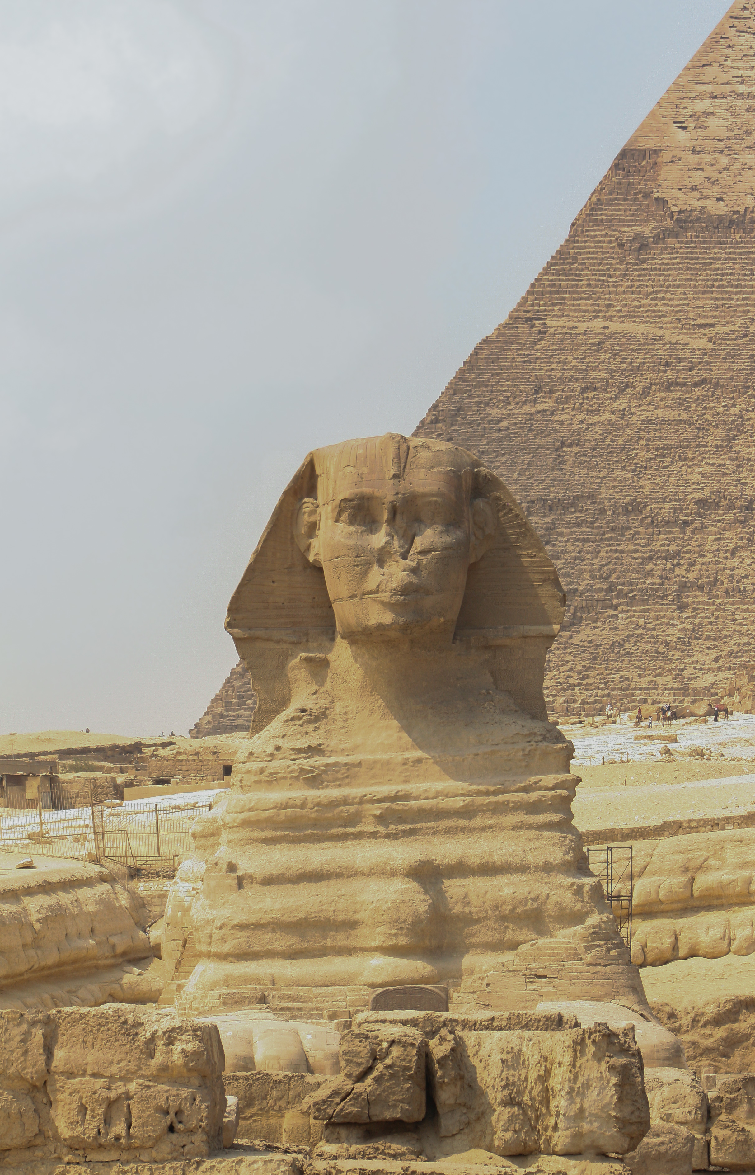 Great Sphinx of Giza, Giza, Egypt